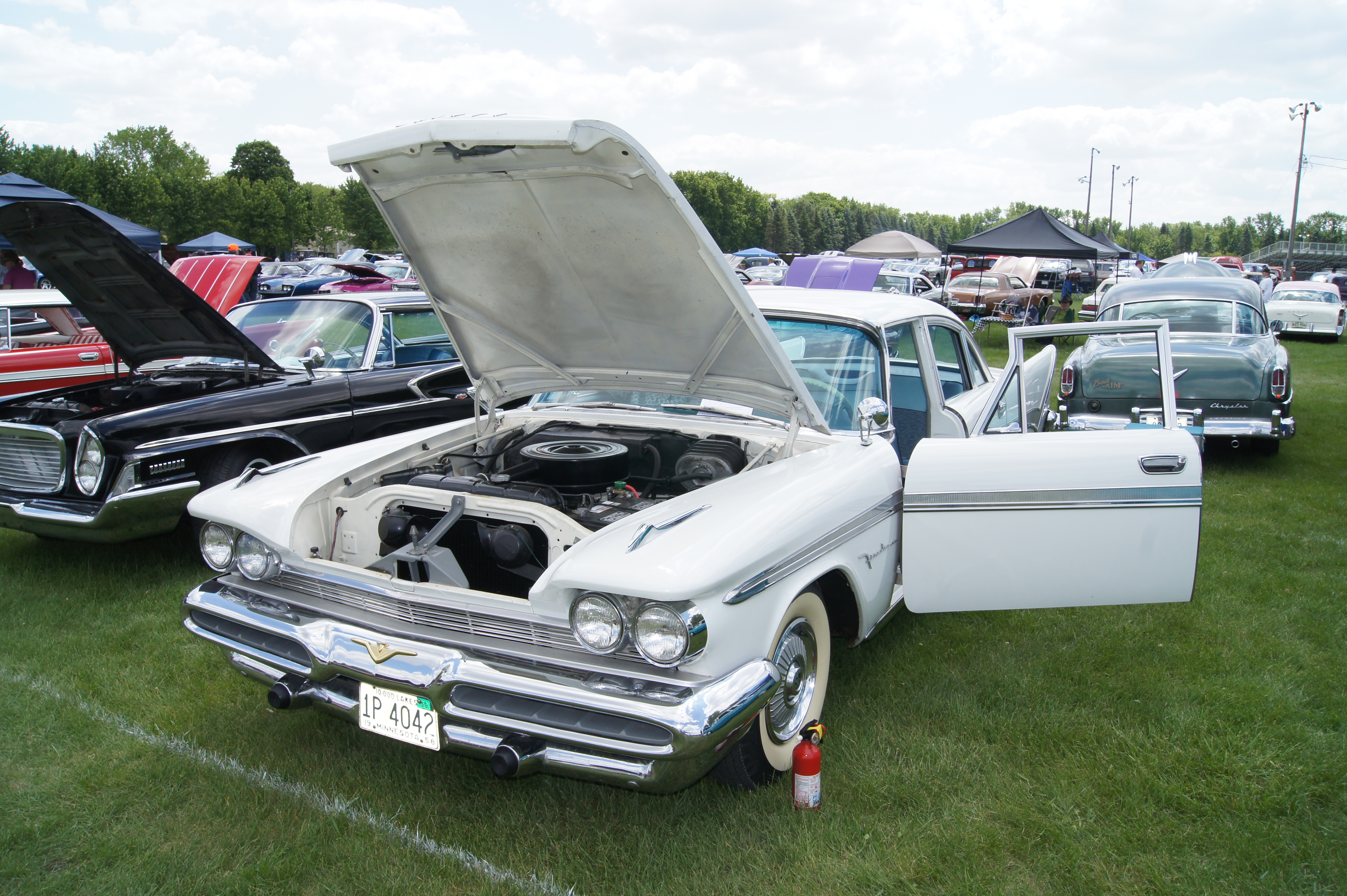 28th Annual Midwest Mopars in the Park June 2, 2012